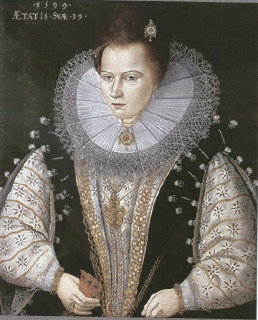 Sarah Blount (c. 1582 - before 1655) wife of Sir Thomas Smythe of the Virginia Company; married secondly Robert Sidney, 1st Earl of Leicester